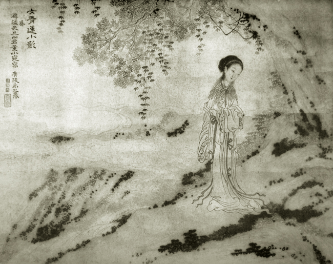 Qing Dynasty painting of Dong Xiaowan (董小宛), aka Qinglian, by Yu Zhiding (禹之鼎). Commonly referred to as 'Small image of the woman Qinglian' (女青莲小影).